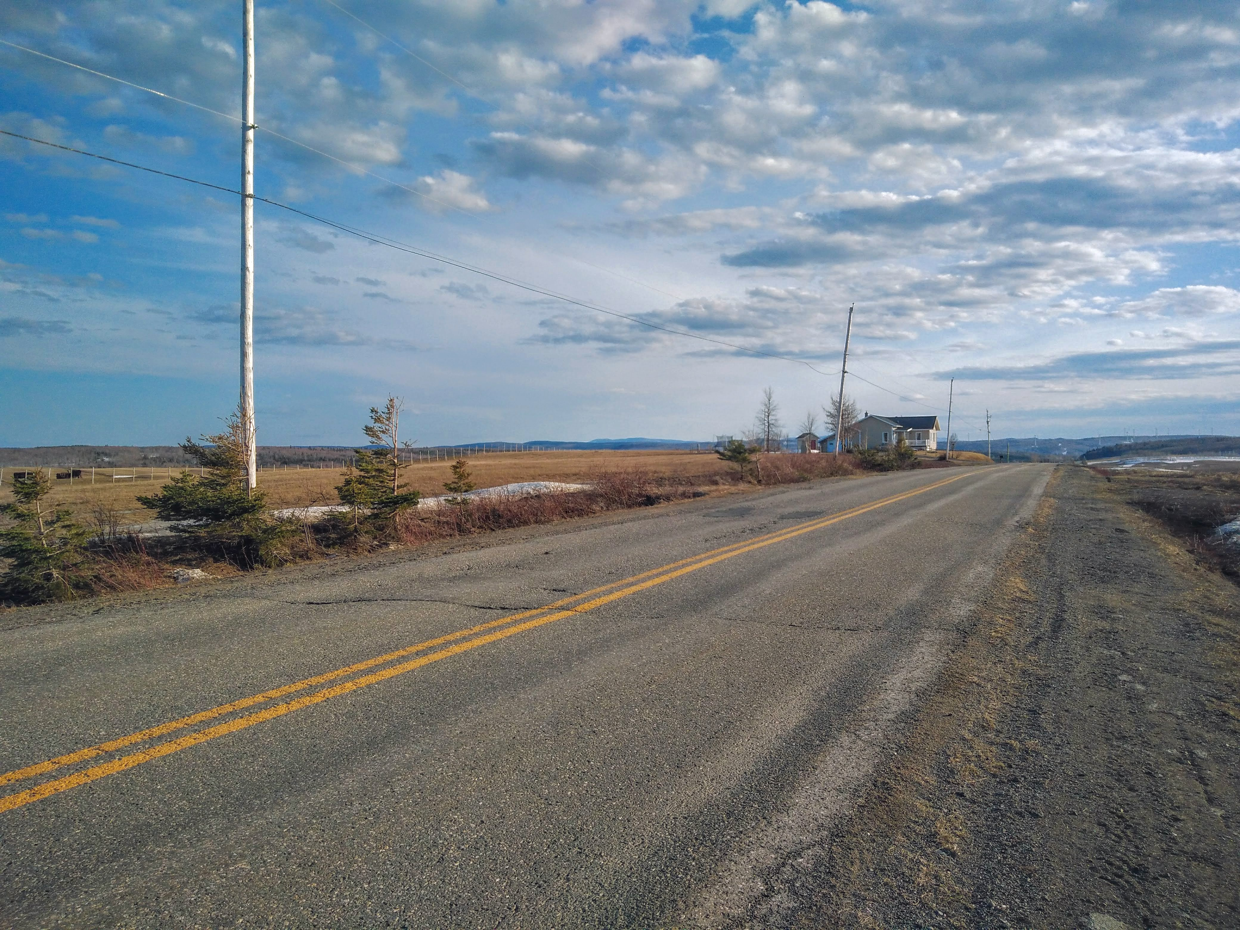 Pierre-Gauthier Road in Saint-Luc-de-Matane, at Spring